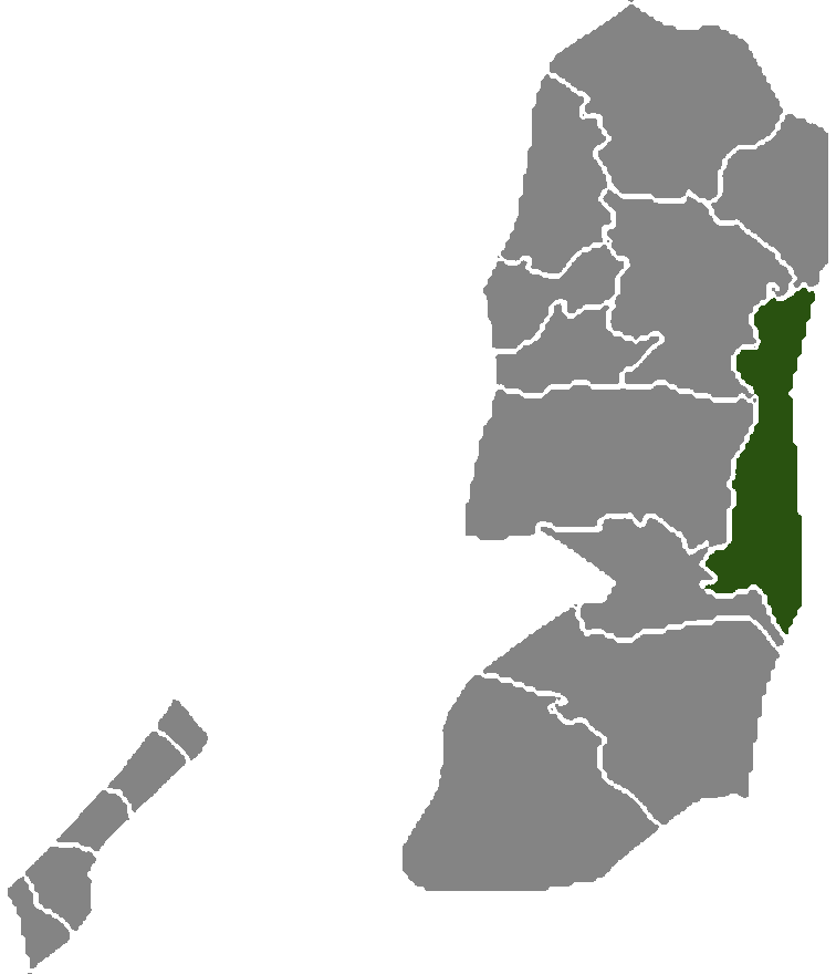 Palestine governorate Jericho